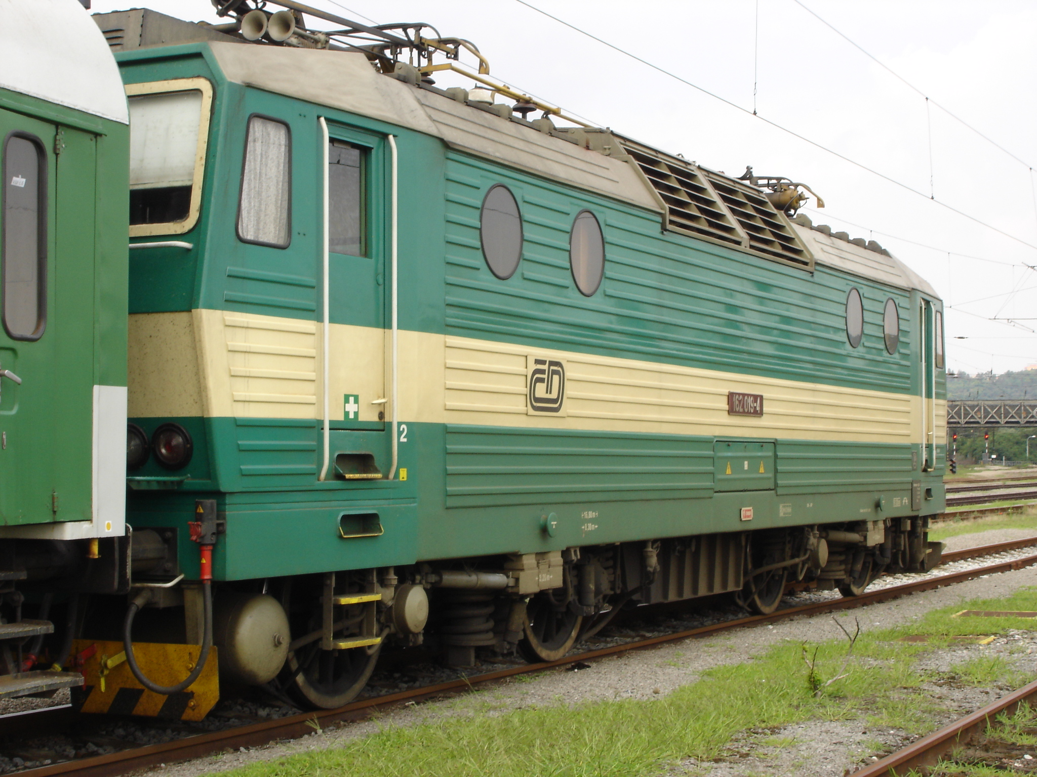 Electric locomotive class 162 of České dráhy in Prague-Bubny station